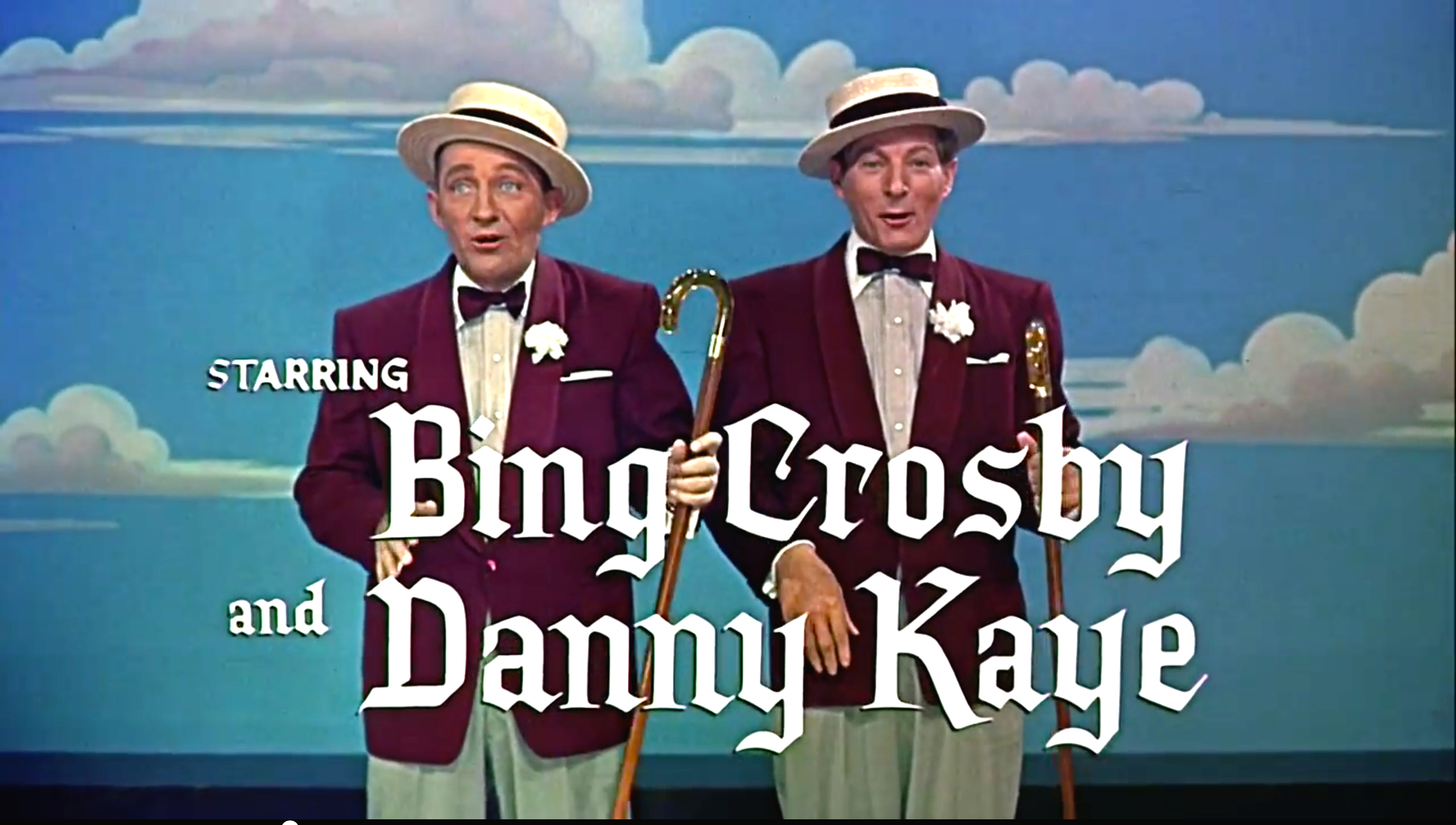 Screenshot of Bing Crosby and Danny Kaye from the trailer for the film White Christmas